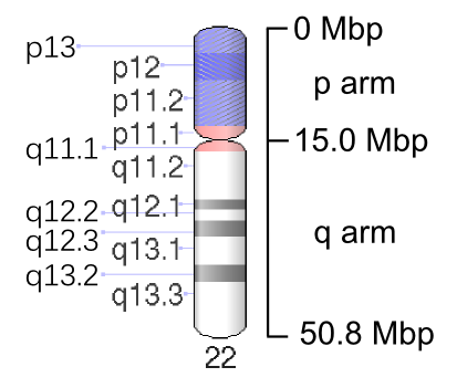 Ideogram of human chromosome 22. G-band, 550 bphs (bands per haploid set). Black and gray: Giemsa positive. Red: Centromere. Light blue: Variable region. Dark blue: Stalk. Mbp: Mega base pairs.